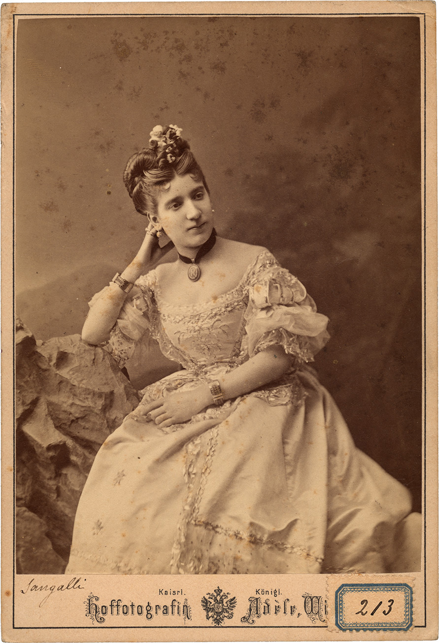 Portrait of Rita Sangalli, dancer (1850-1909). Photo by Atelier Adéle, before 1909.